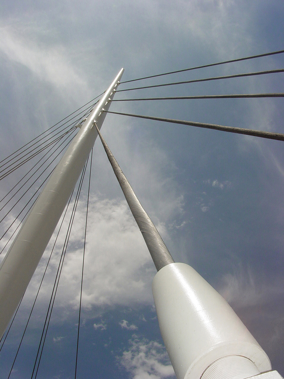 The mast of Denver’s Millennium Bridge rises to a height of 200 feet (61m), and connects to the bridge's deck and foundation anchors by post-tensioned steel cables. Photographer: Cher Skoubo